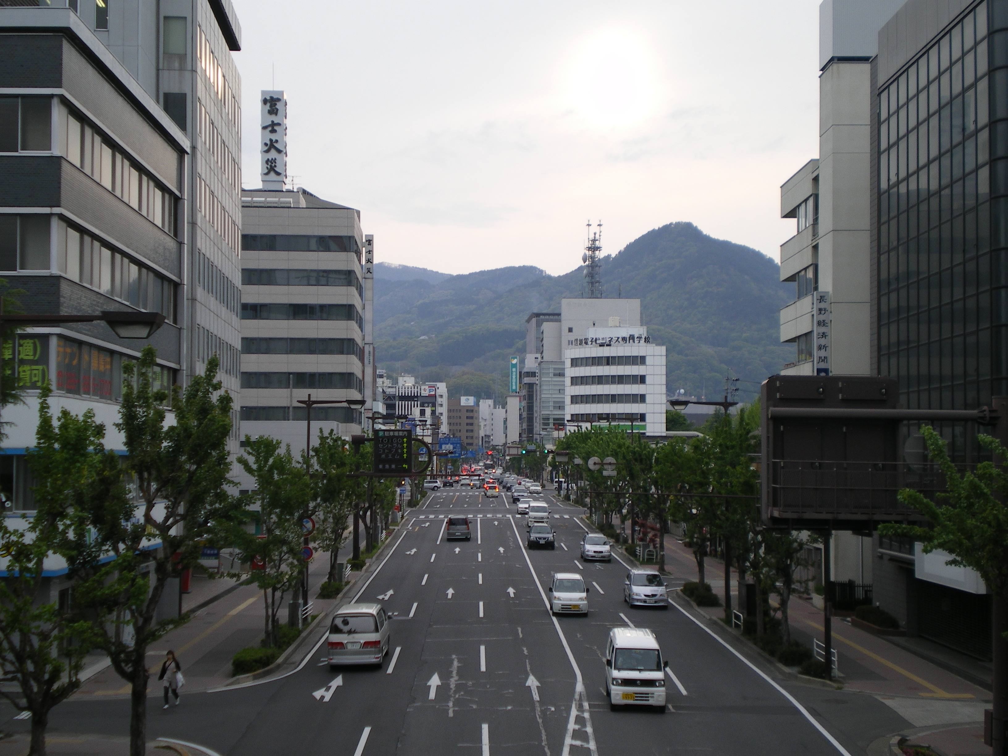 Showa-dori Street, Nagano, Japan